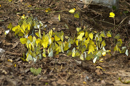 by Dhaval Momaya during November 2005 at Amravati-Chinnar border, Tamilnadu.